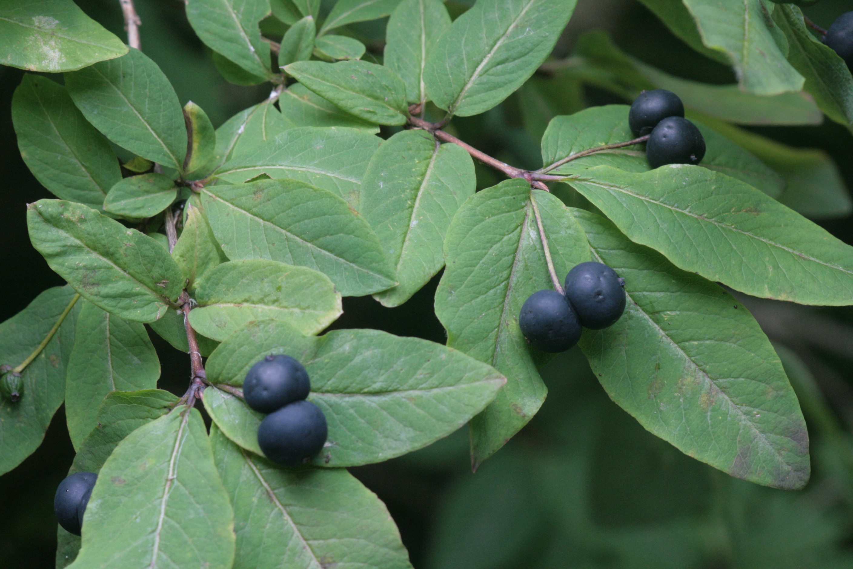 Lonicera nigra